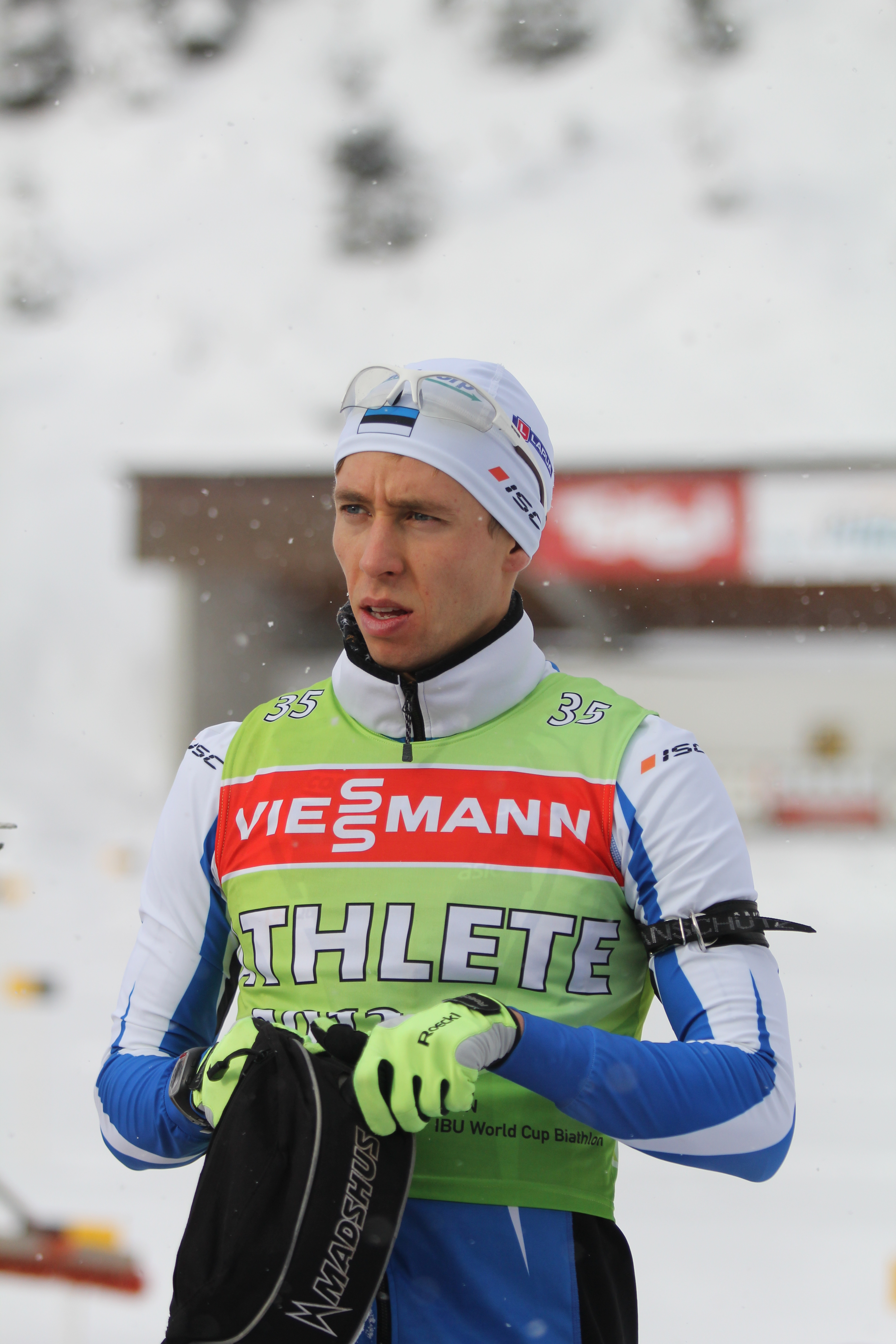 Danil Steptsenko at Biathlon Worldcup in Hochfilzen 2012